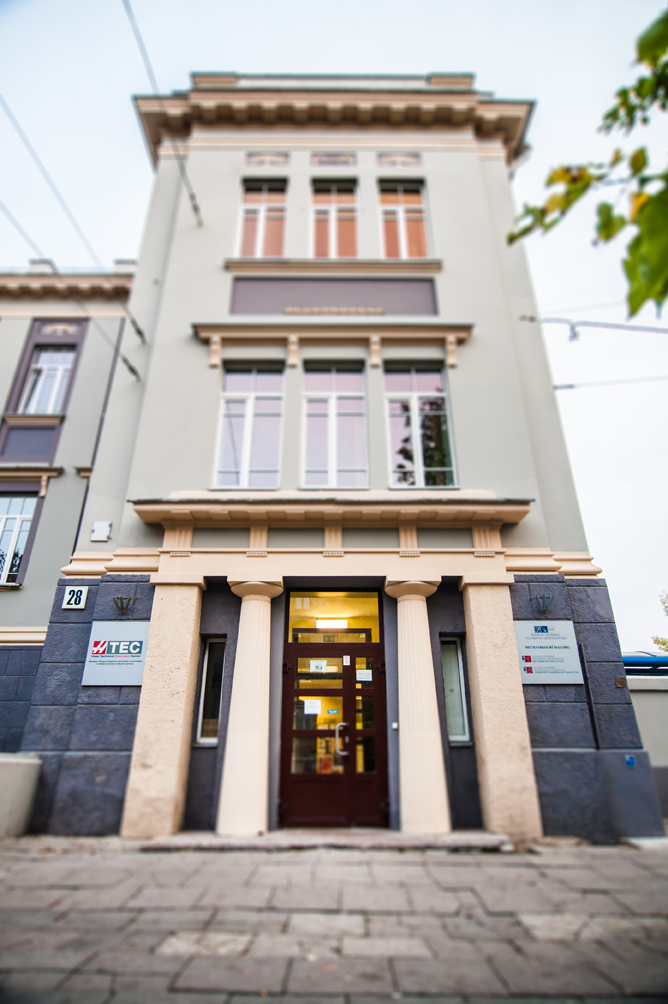 VGTU MF